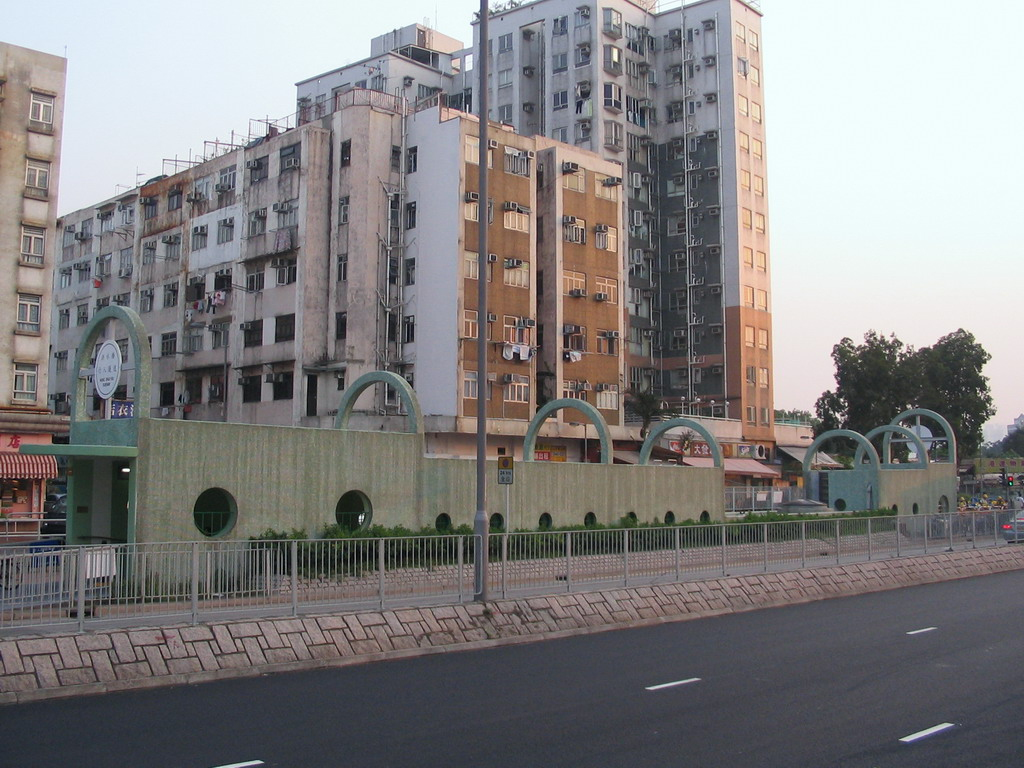 Castle Peak Road near Hung Shui Kiu